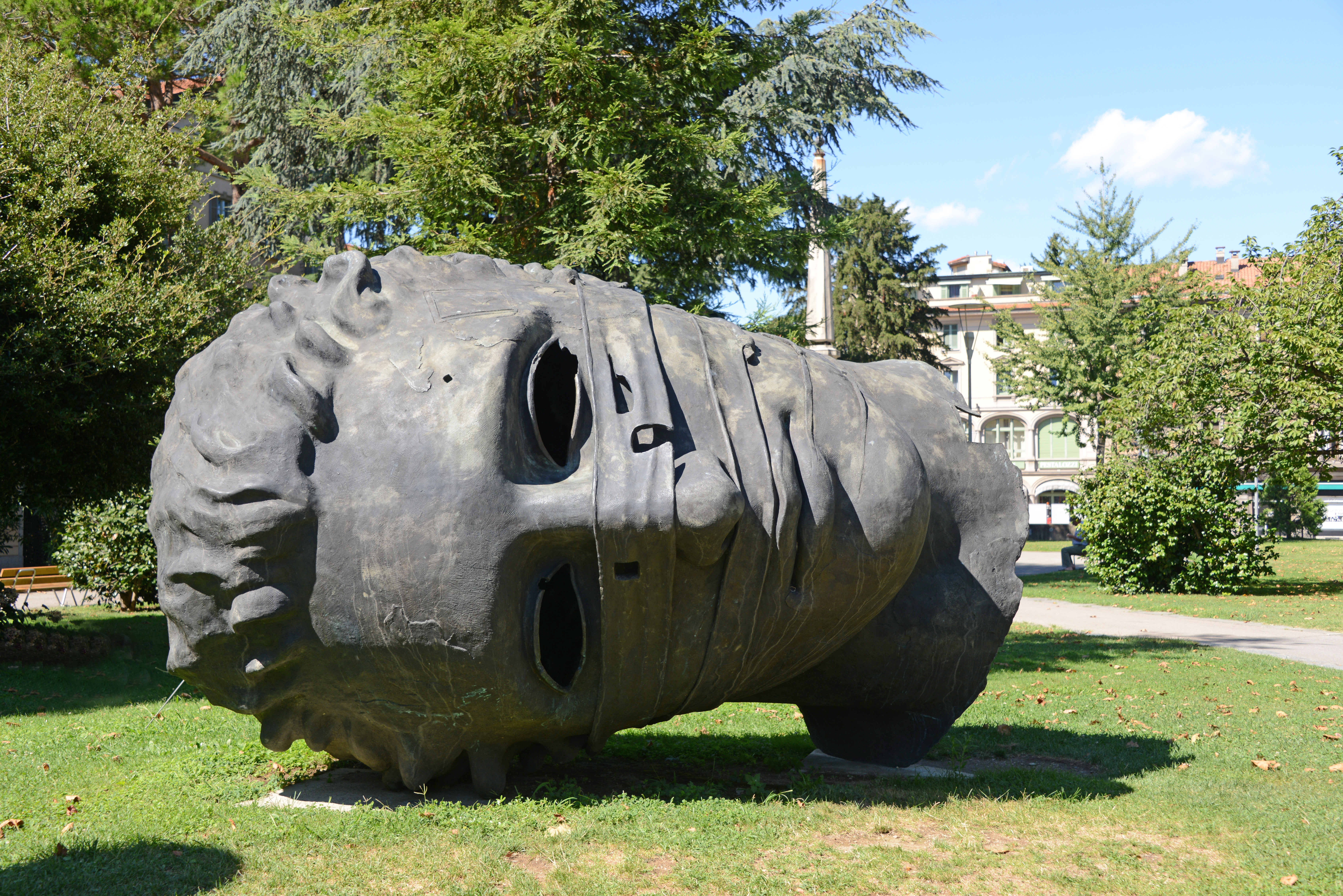 Lugano Broncehead